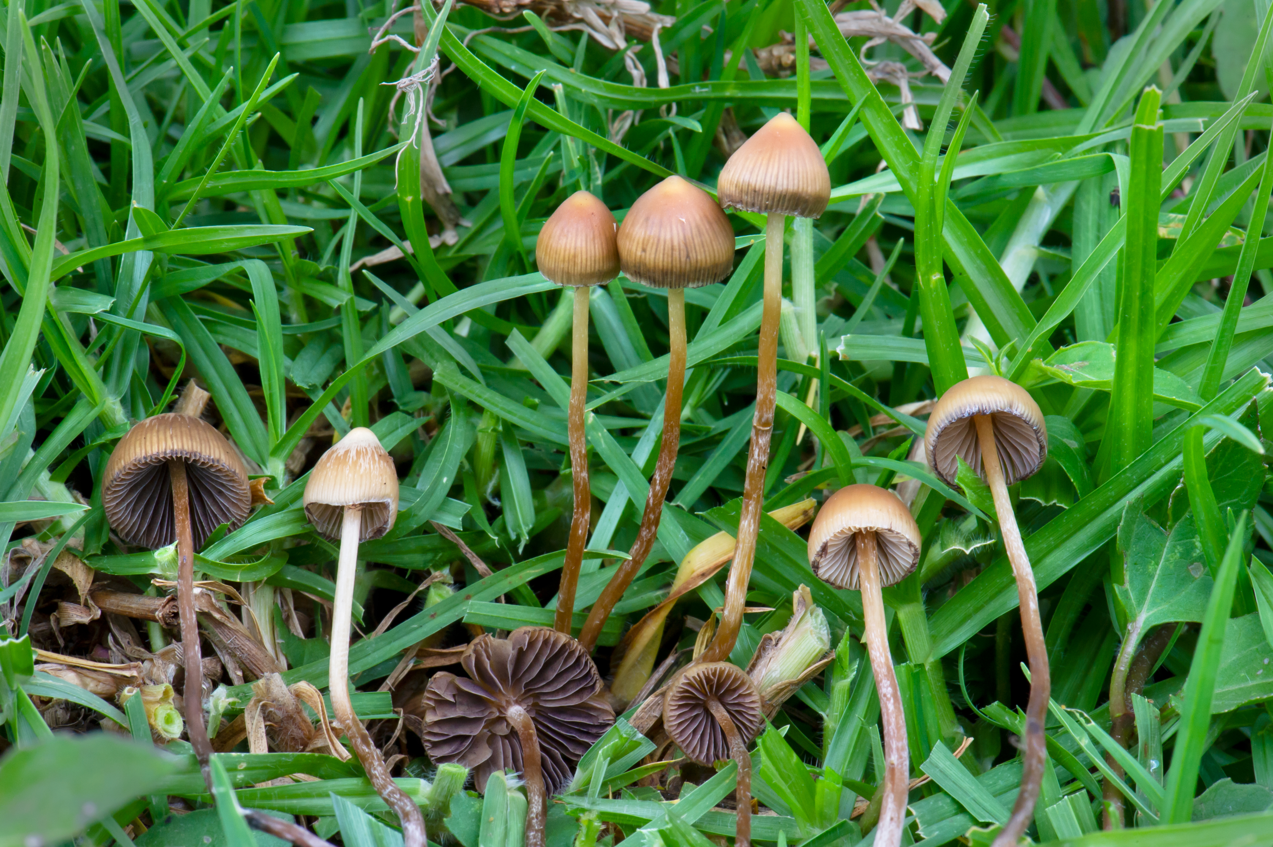 Psilocybe mexicana photographed in Veracruz, Mexico on July 2, 2019. Common in grass about 1600 meters elevation. Very strong cucumber odor.